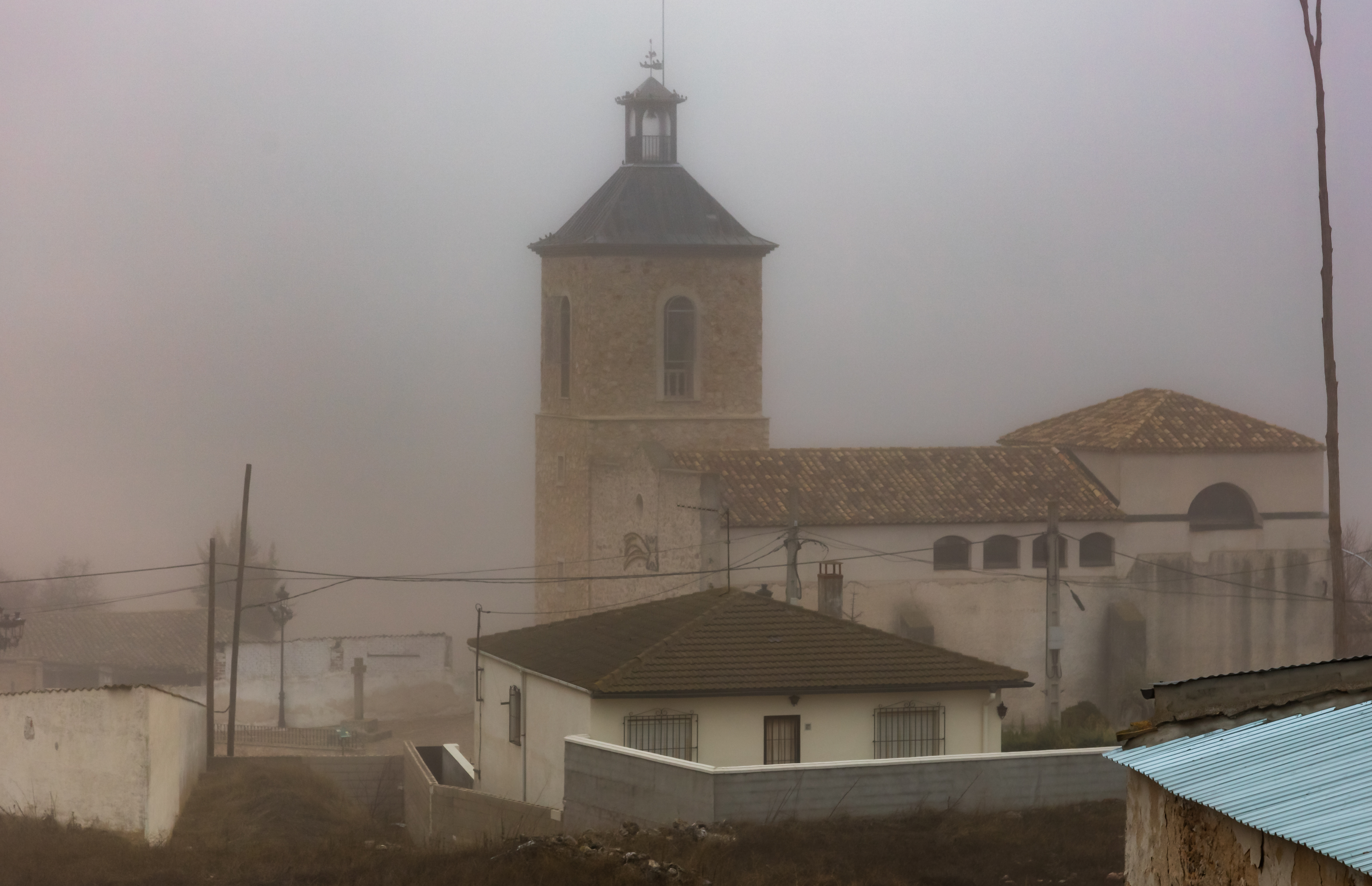 Pozo de Almoguera, Guadalajara, Spain